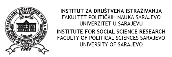 Logo Instituta za drustvena istrazivanja / Logo of Institute for Social Science Research